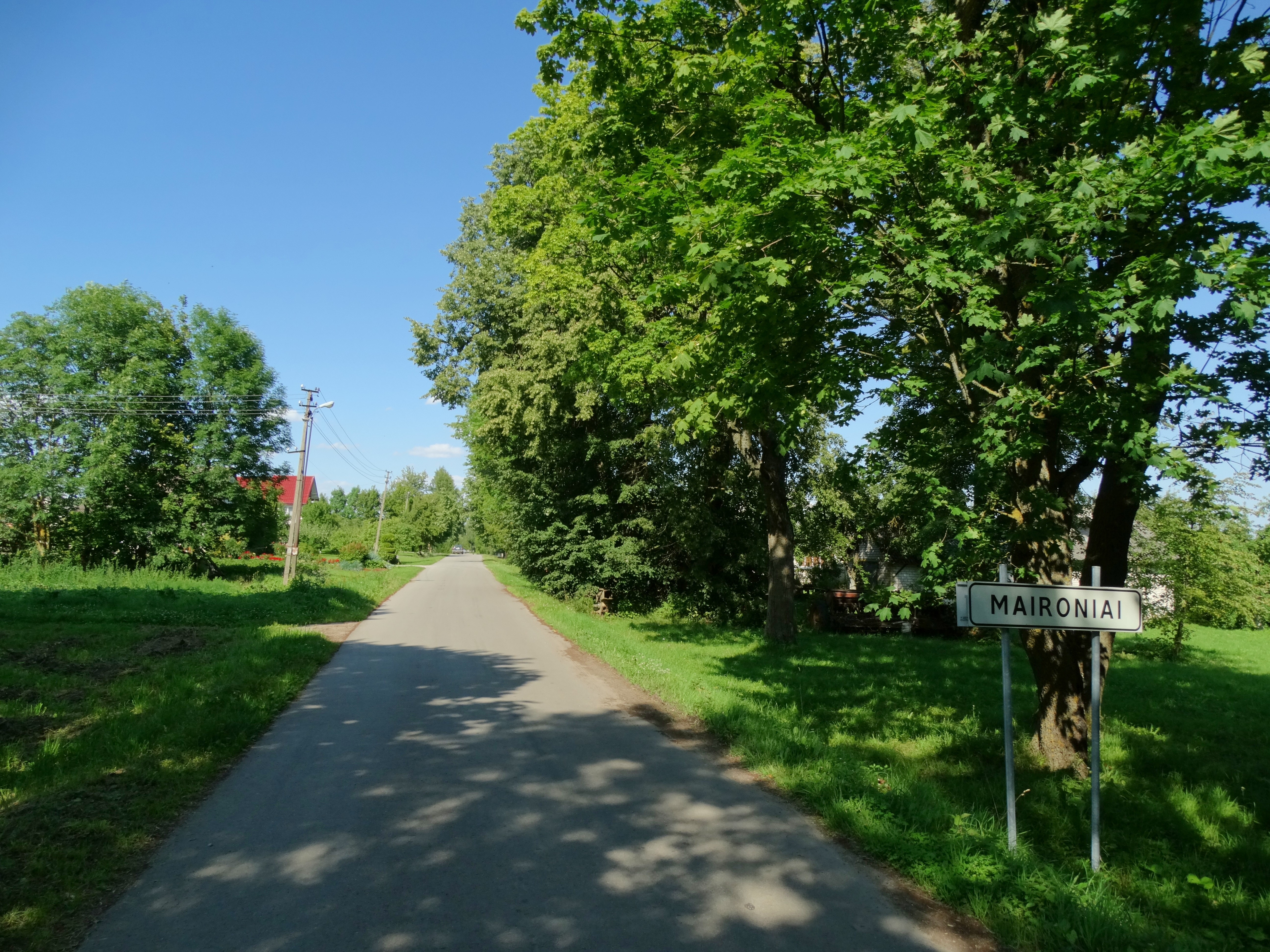 Maironiai, Joniškis District, Lithuania